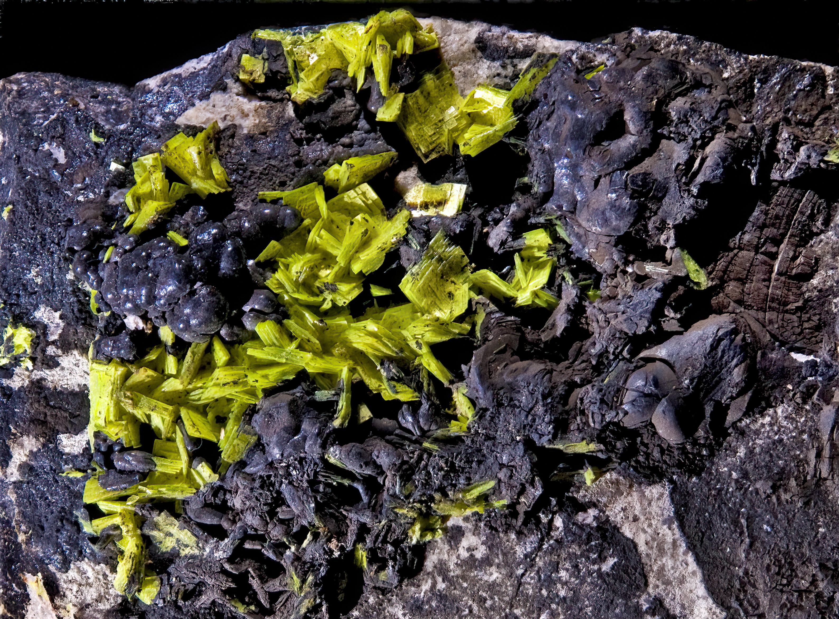 Autunite with Uraninite (Var:Pitchblende) - Vénachat Mine, Compreignac, Haute-Vienne, Limousin, France (11x7cm)